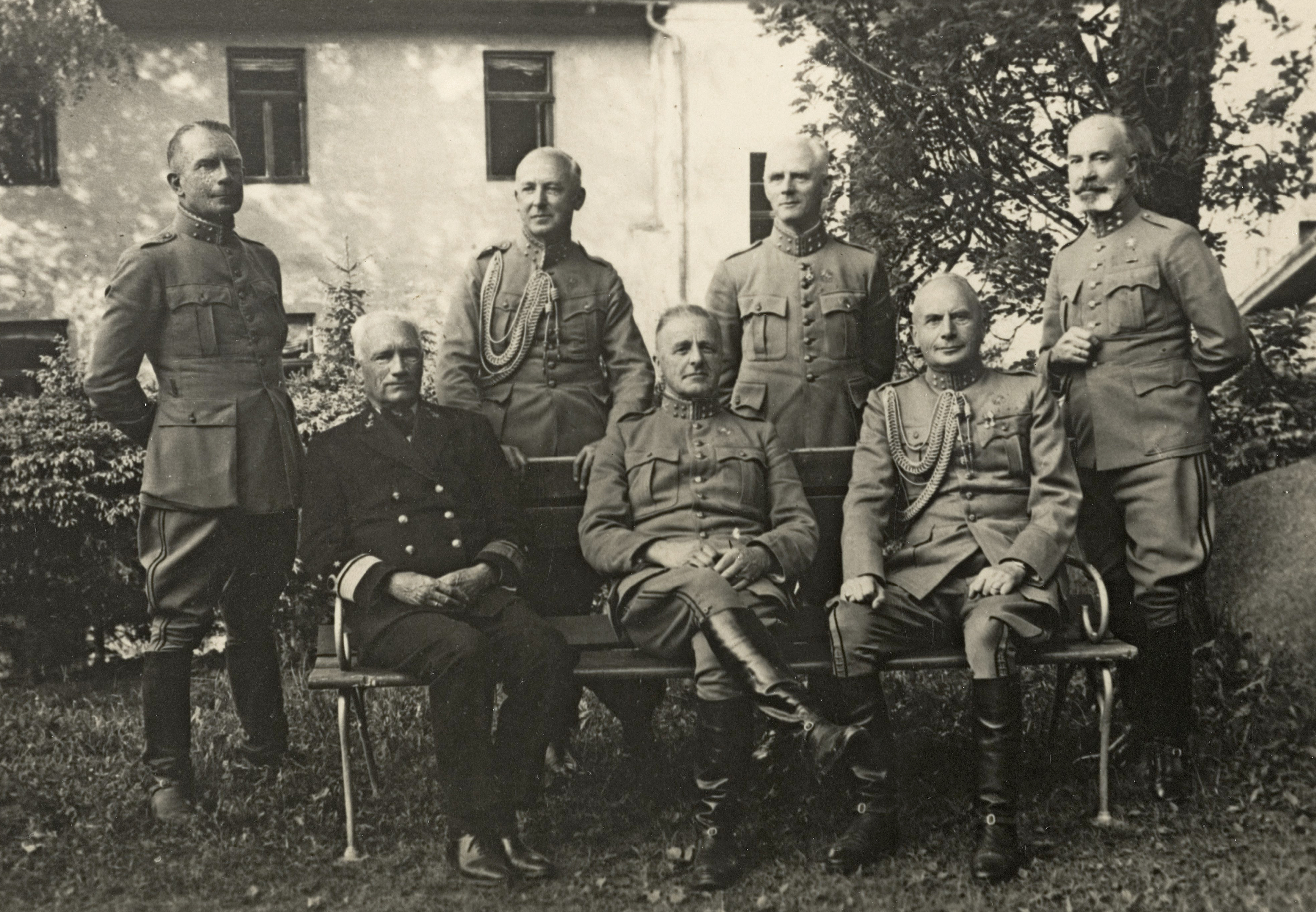 Senior Dutch officers in 1941 during their captivity in Oflag VIII-E Johannisbrun, near Troppau. Standing, from left to right: Major General H.F.M. Baron van Voorst tot Voorst, Major General A.R. van den Bent, Lieutenant General P.W. Best, Major General H.C.G. baron van Lawick. Seated, from left to right: Vice Admiral N.J. van Laer, General H.G. Winkelman, Lieutenant General J.J.G. Baron van Voorst tot Voorst.